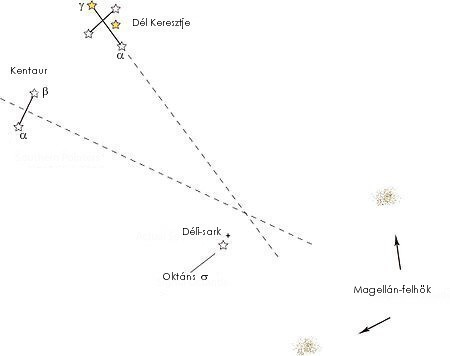 astronomic determination of South-pole